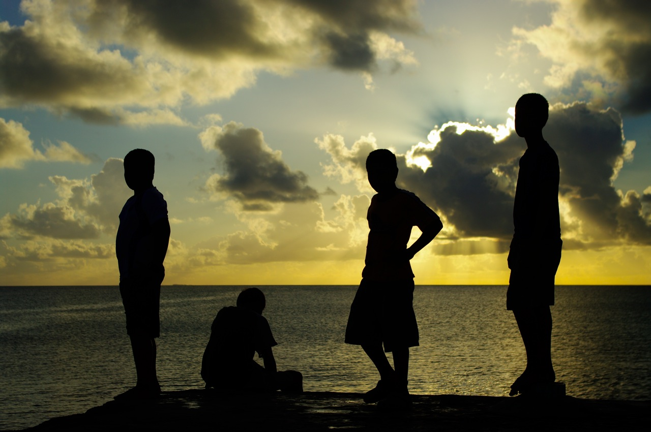 Tuvalu